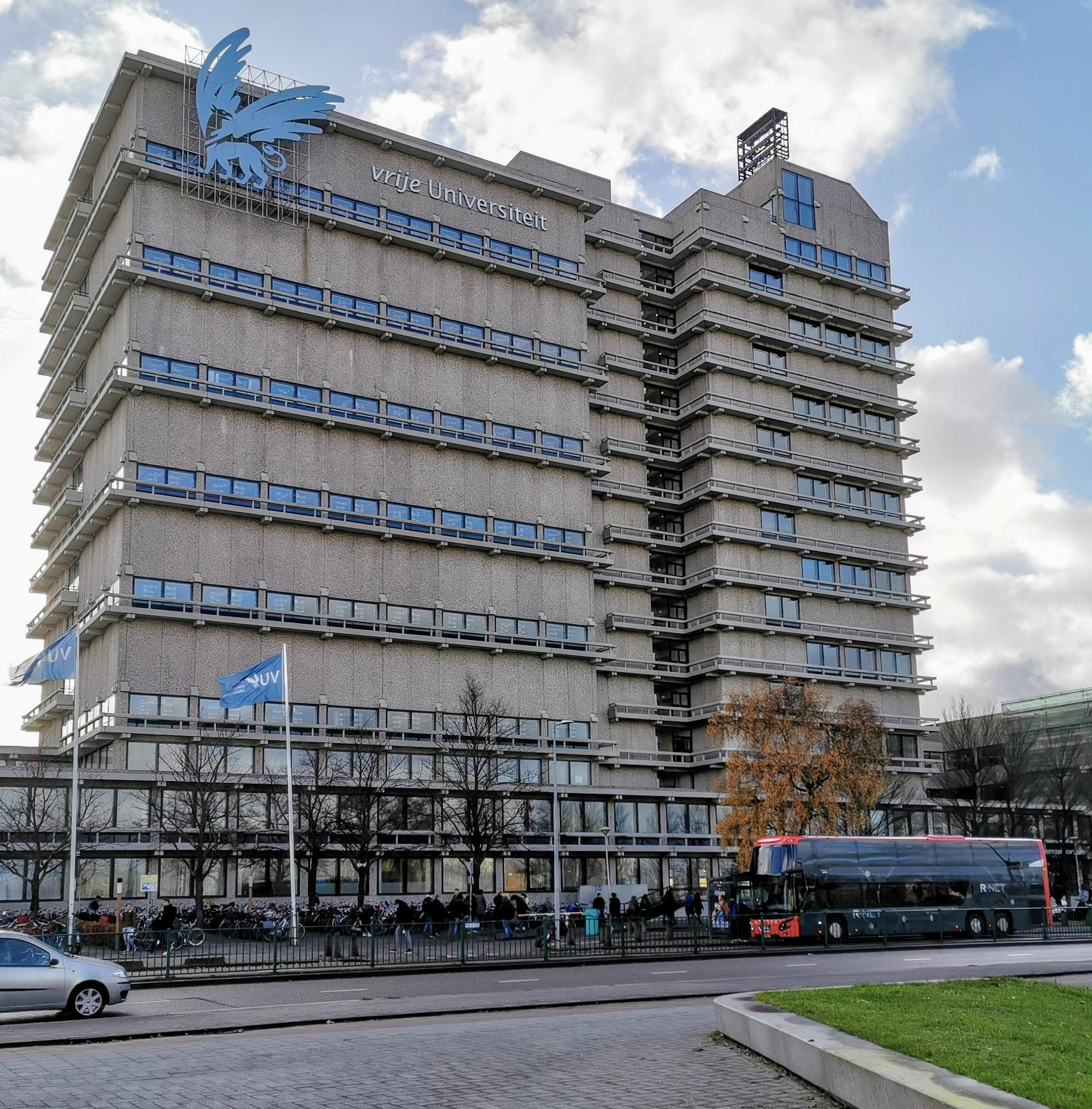 Main building of Vrije Universiteit Amsterdam